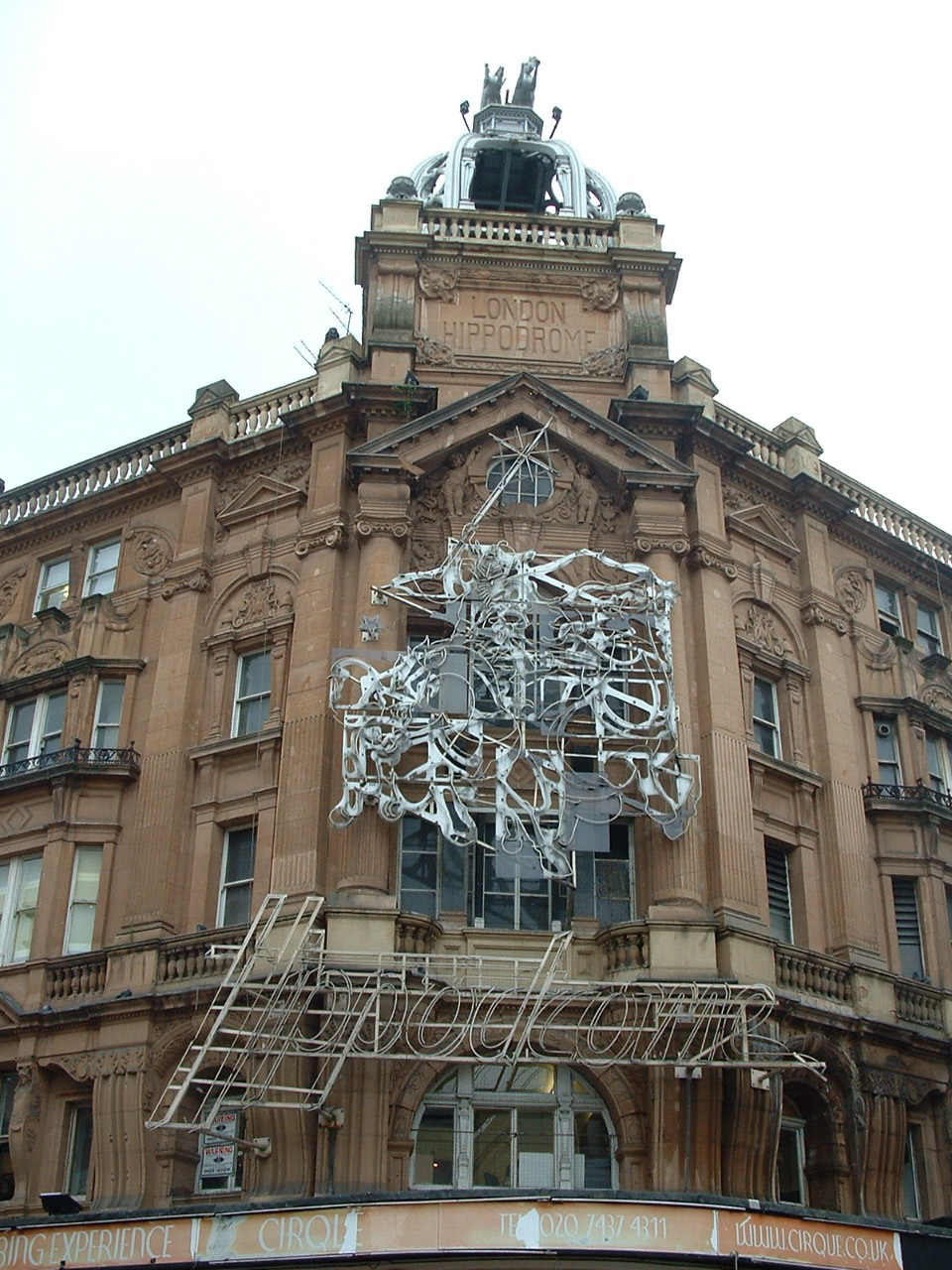 London Hippodrome, 2007